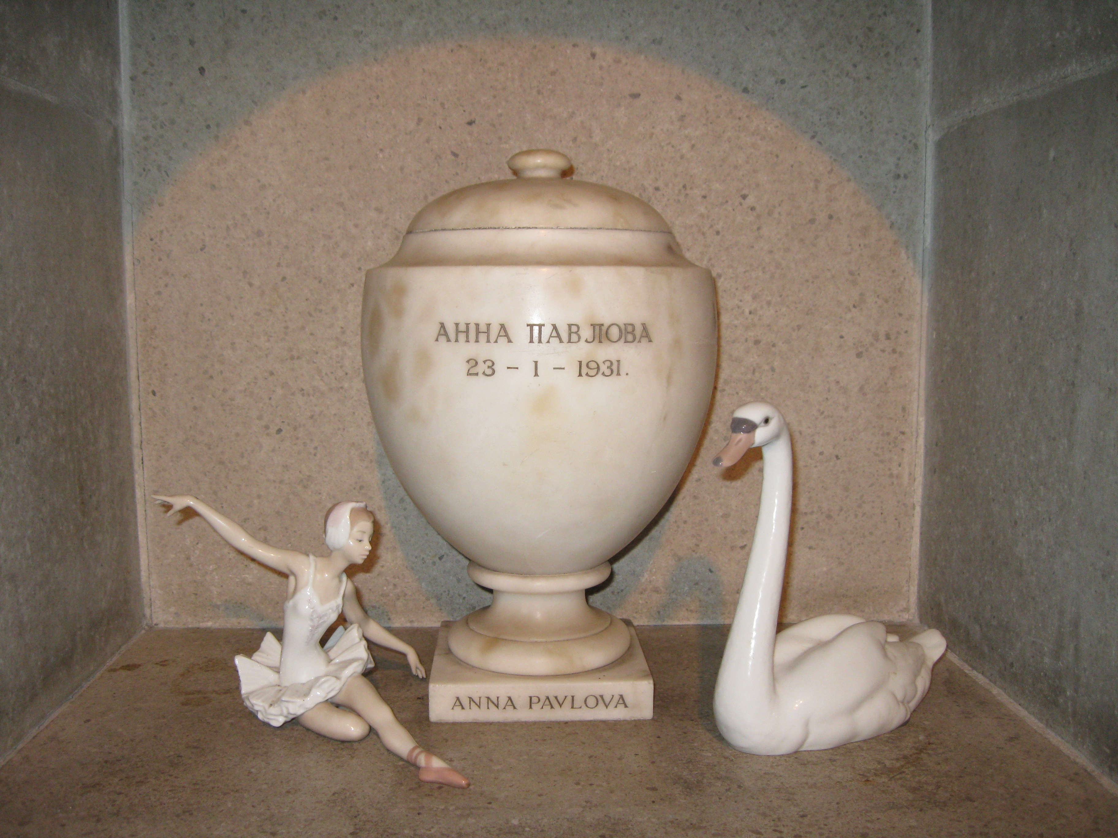 Golders Green Crematorium, Urn of Anna Pavlova